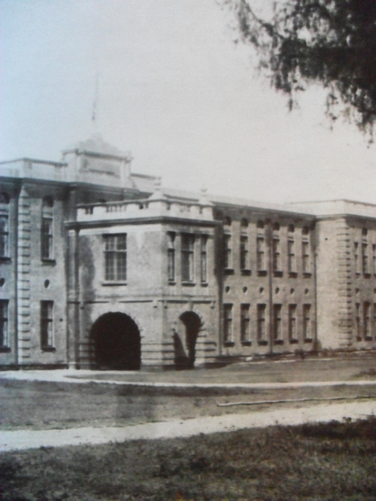 The image was developed in 1915 in India. The image depicts a building of the Forest Research Institute, Dehradun which is currently the main building of the residential school The Doon School, Dehradun, India.